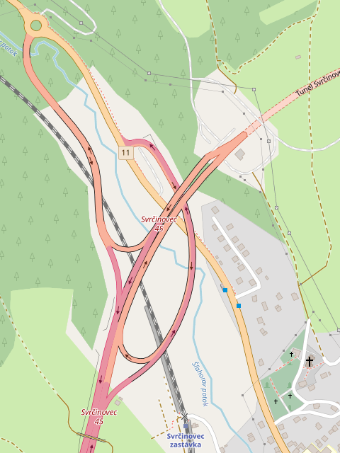 This map may be incomplete, and may contain errors. Don't rely solely on it for navigation.